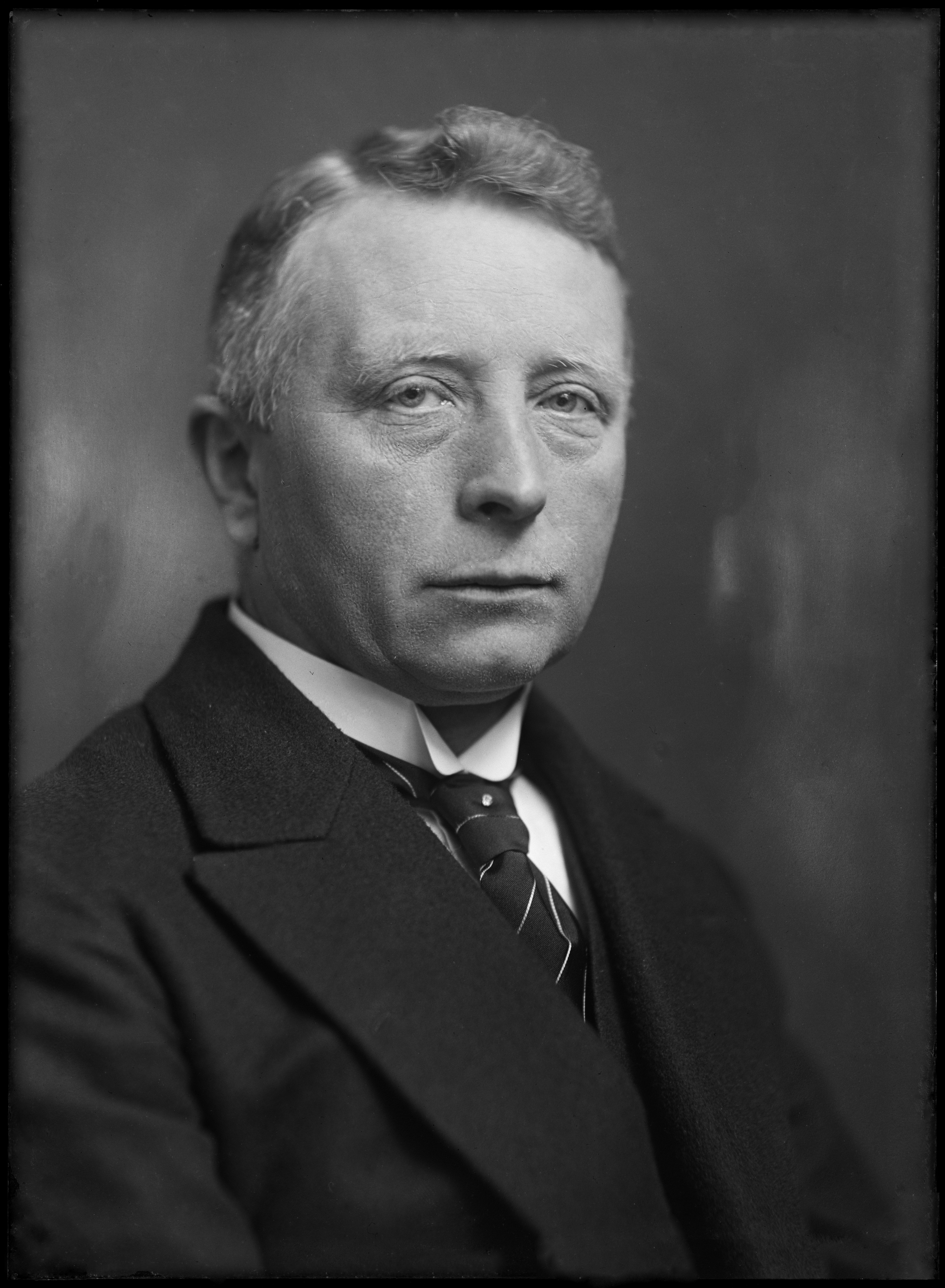 Portrait photograph of Johan Christiaan van Eerde, by Jacob Merkelbach